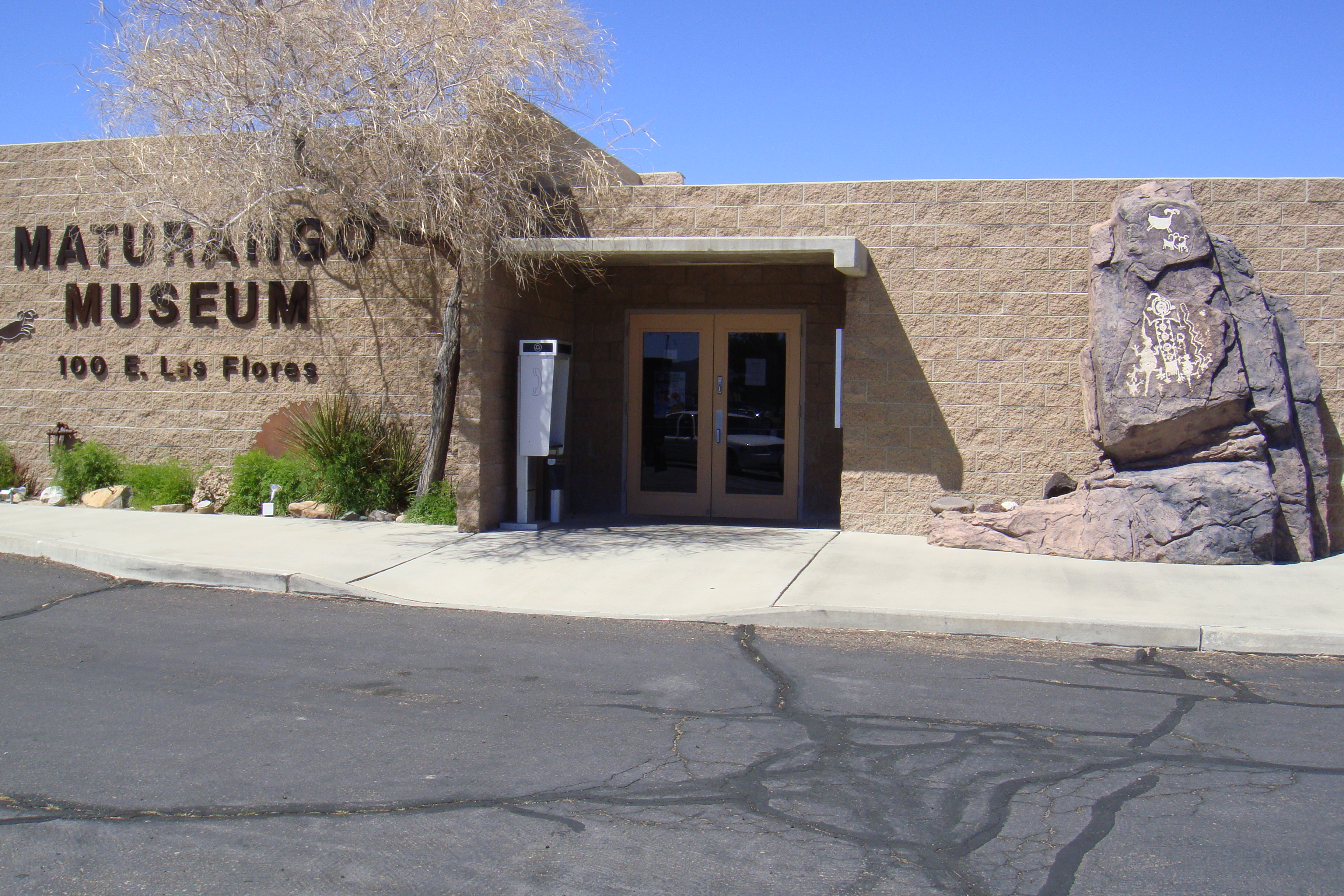 The Maturango Museum — in Ridgecrest, California. On the history and nature of the northern Mojave Desert.